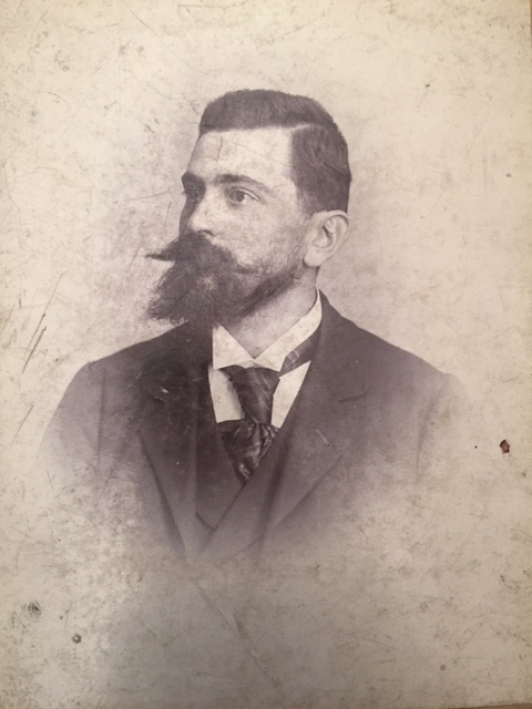 Vasilije Simić, a Serbian judge of the Appeal Court of Belgrade, Kingdom of Serbia